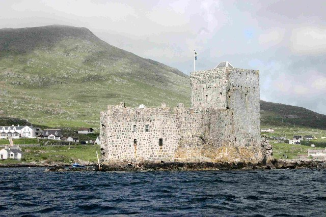 Kisimul Castle. View of Kisimul Castle from boat in the bay.